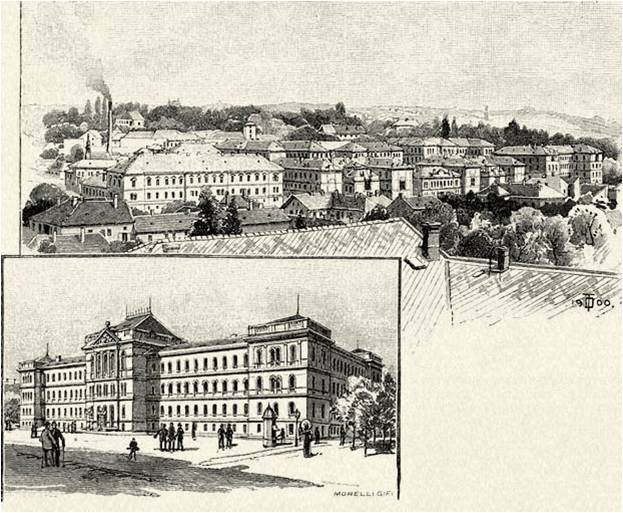 Franz Joseph University in Kolozsvár (today Cluj-Napoca, Romania)